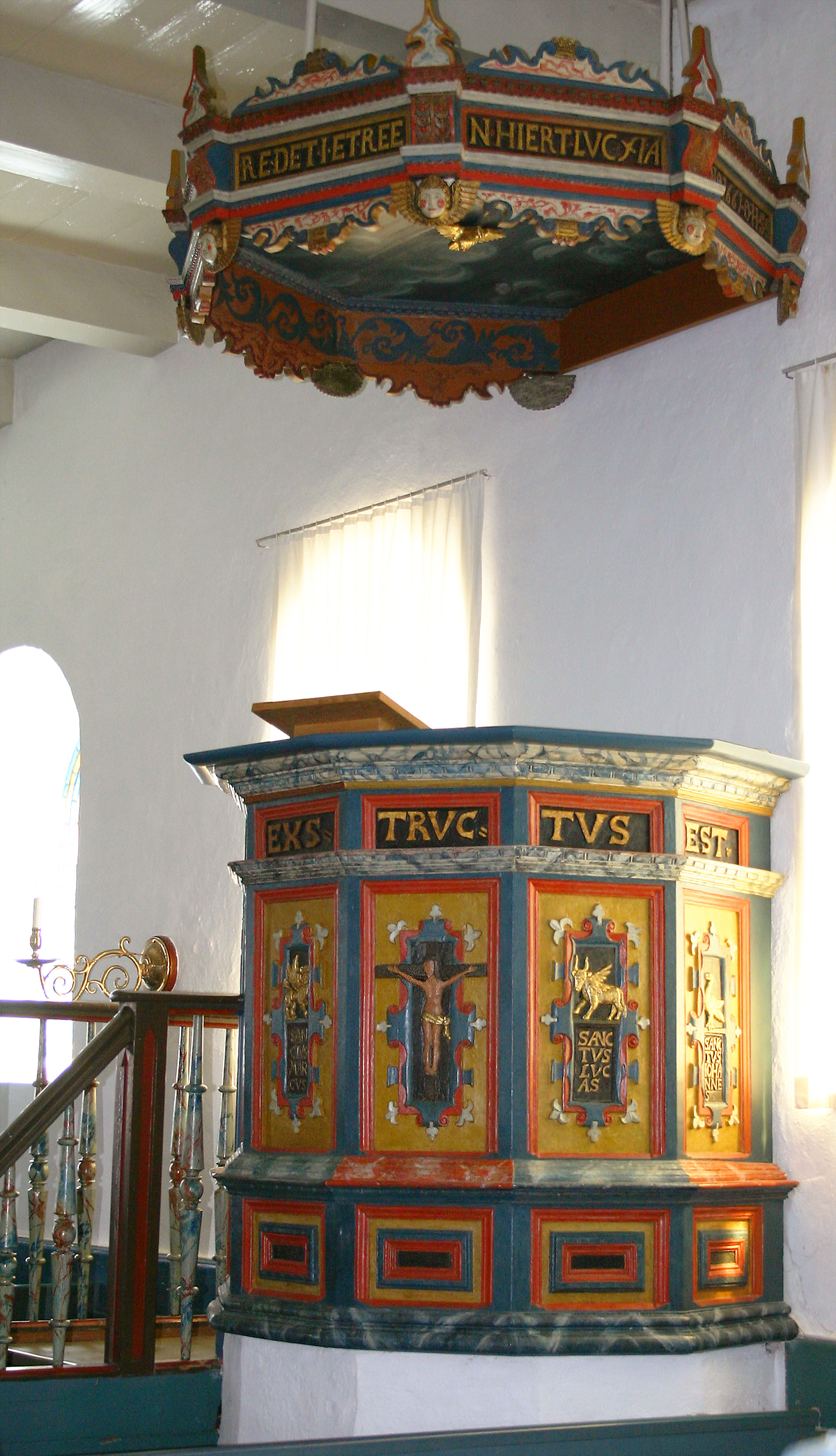 Sønderho kirke, the pulpit. Sønderho Sogn, Skast Herred, Ribe Amt